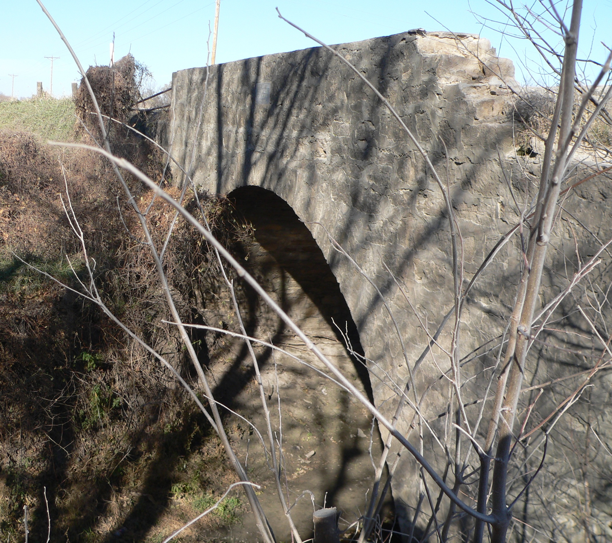 Keim Stone Arch Bridge, located on 624 Av just south of 729 Rd in Johnson County, Nebraska; seen from the southwest.